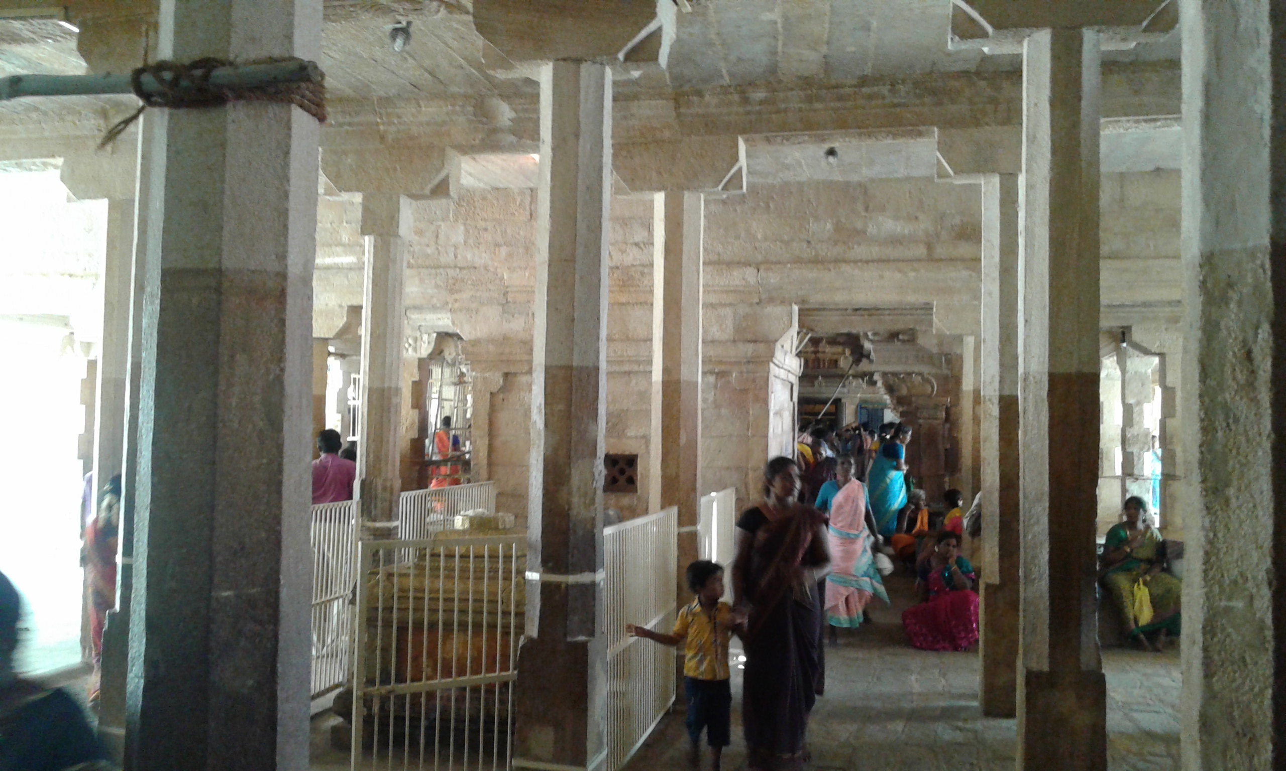 Thirukkolur